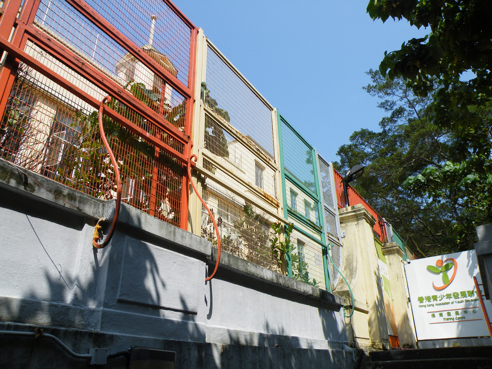 Former Quarry Bay School, No. 986 King's Road, Quarry Bay, Hong Kong